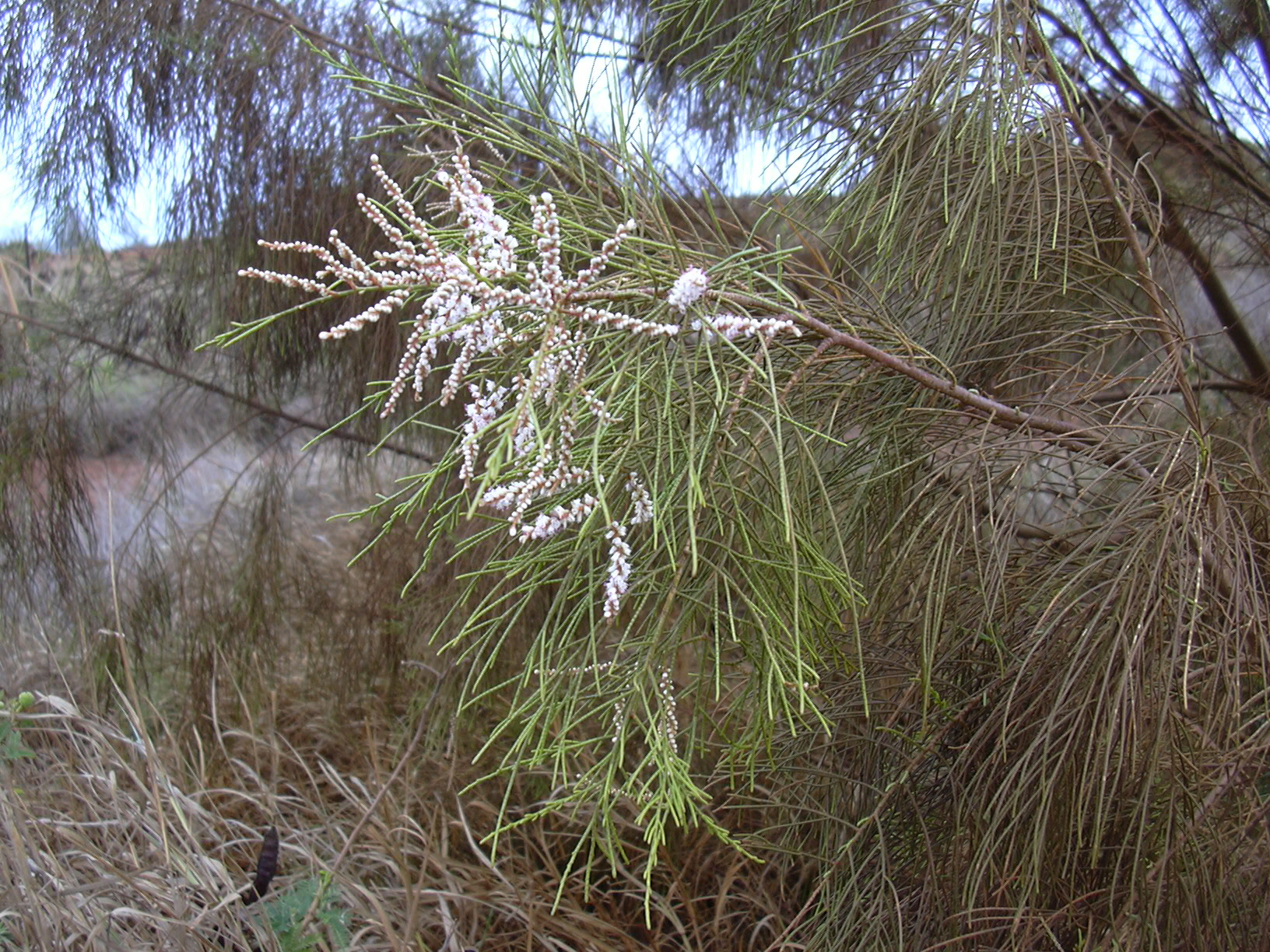 Tamarix aphylla (flowers). Location: Kahoolawe, LZ1